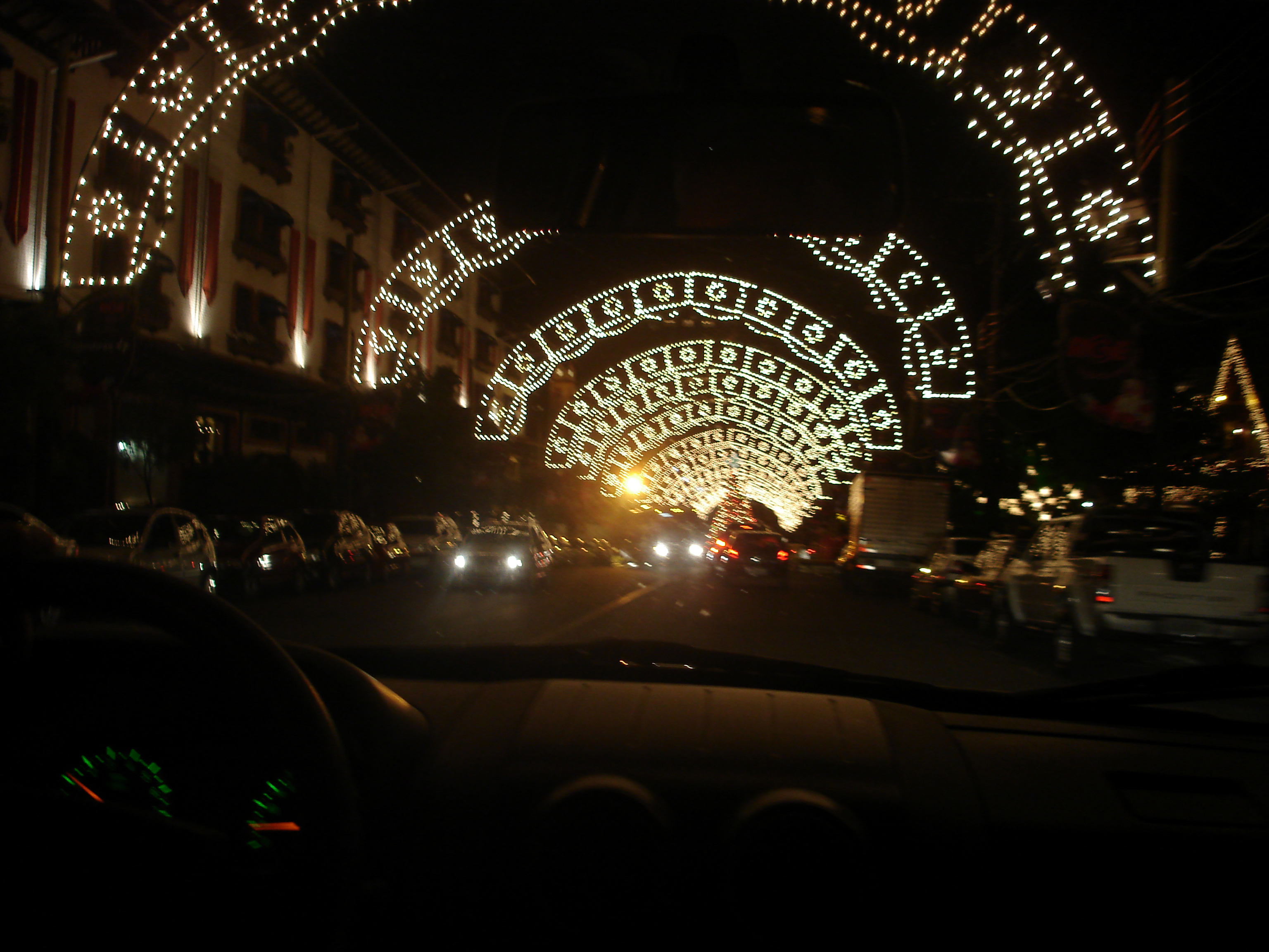 I take this picture in 29/12/05.